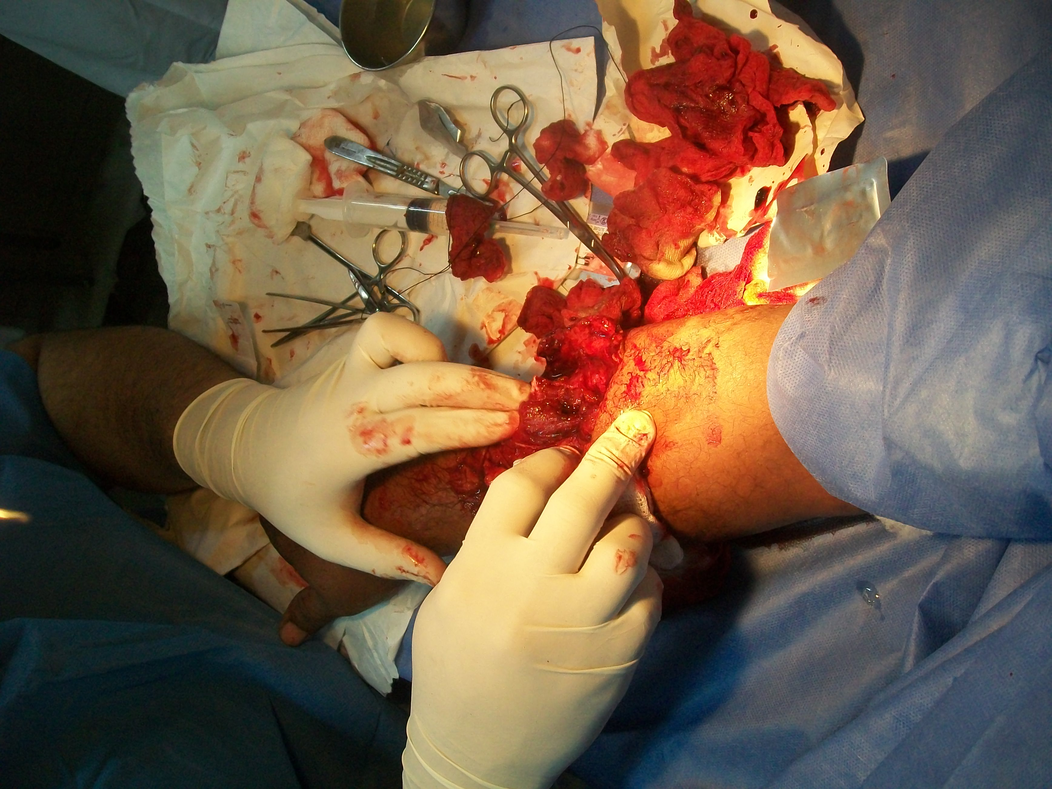 Soft tissue management of open comminuted fracture of the right radius